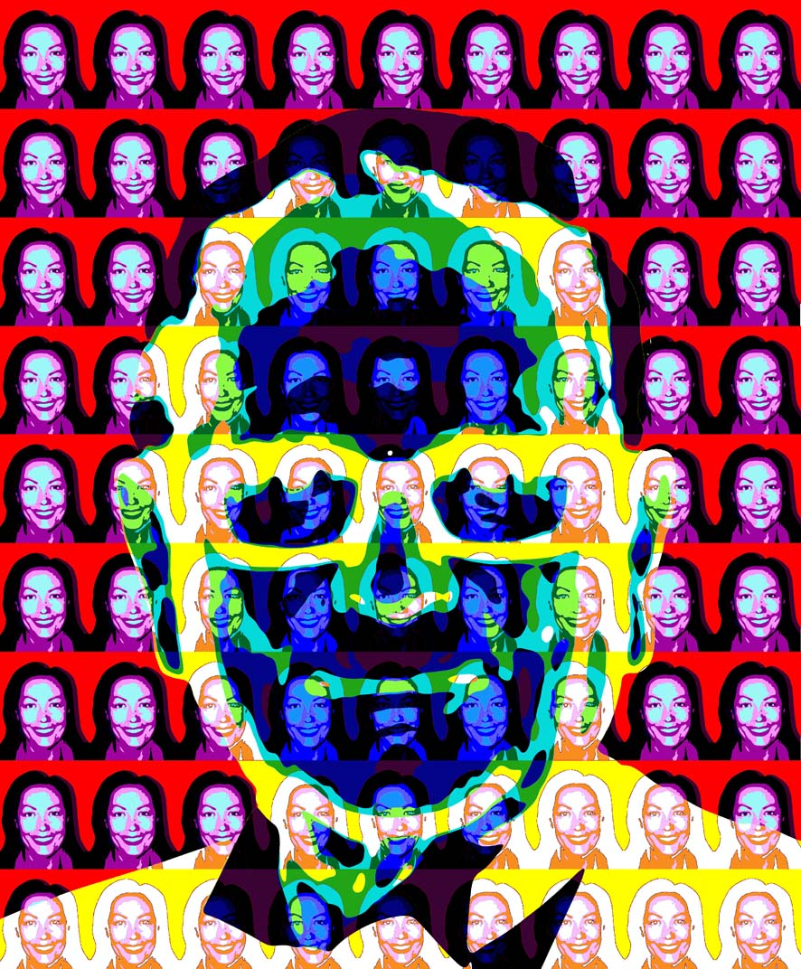 Pierre Cardin according to Dimitri Parant. Concentrate 30 seconds on the white dot and close your eyes 10 seconds.